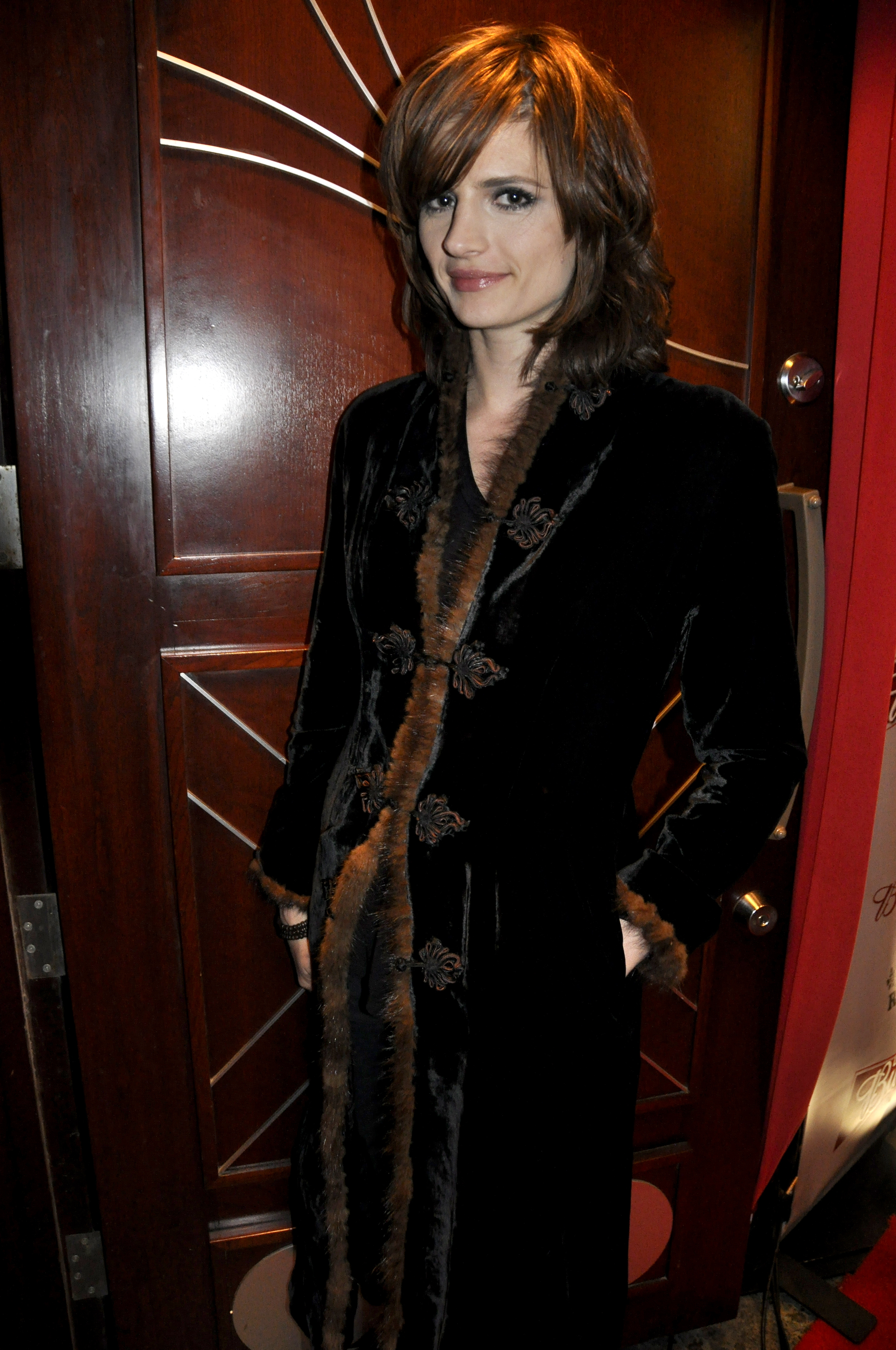 Actress Stana Katic at an Olympic party